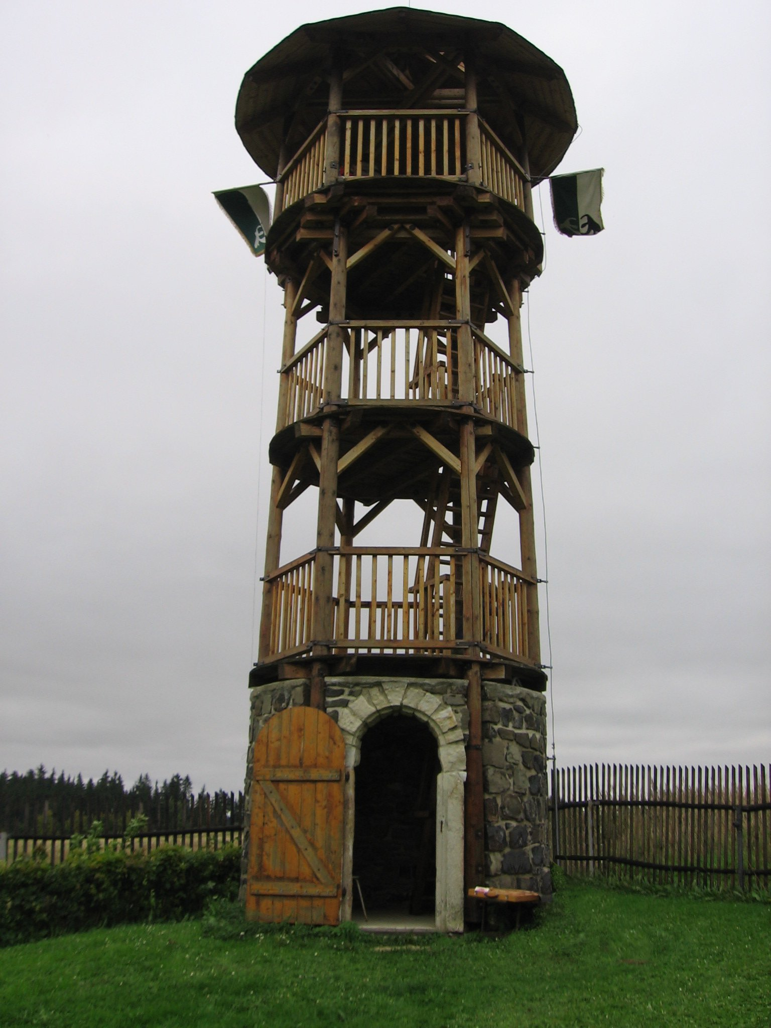 Observation tower by the village Útvina, Karlovy Vary District , Czech Republic